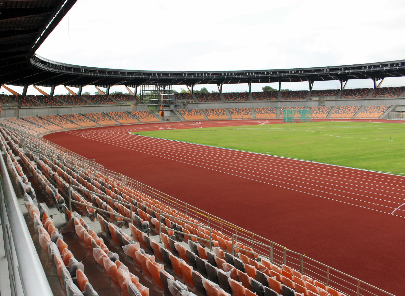 Inside at the New Clark City Athletic Stadium with the capacity of 20,000 and it has now a rubberized track oval. Owned by Philippine Information Agency - Tarlac, and it is public domain.